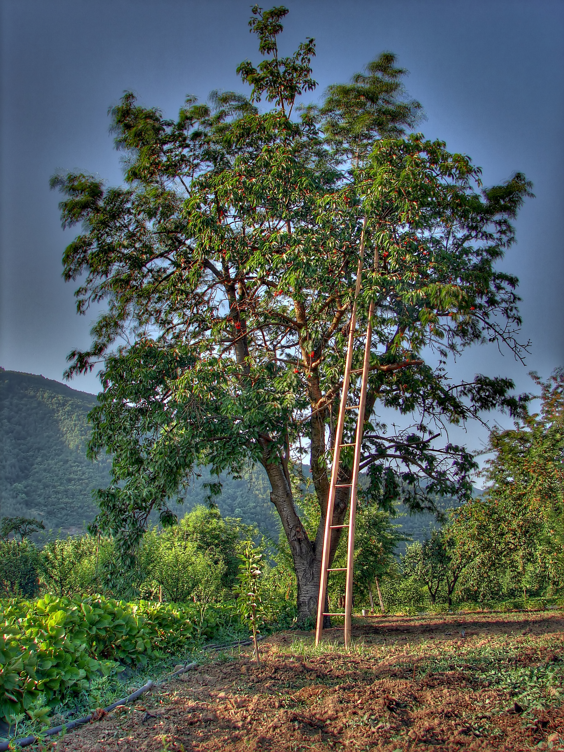 Ladder and Cherry tree